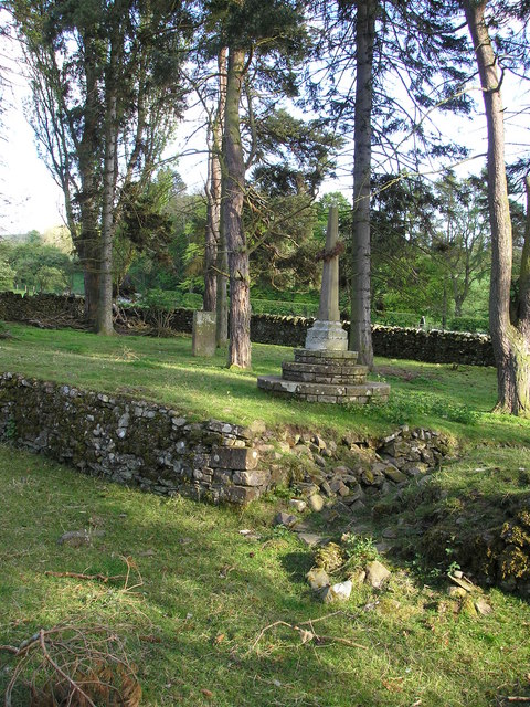 Lindean Kirk A Small Chapel stood here dating from the 12th Century and was part of Kelso Abbey, it was used as the Parish Kirk for Galashiels up until 1647.